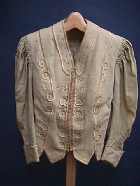 Woman's jacket in pale olive silk-wool or fine wool fabric; short fitted style; collarless but with applied flat facing acting to define the neckline; full sleeves with puffing to upper, the fullness assisted by two rows of gathering around top of sleeve pleated into a deep turned-back cuff with vandyked edge; the back with shaped centre back panel featuring short slits to lower edge; the front lower with centre front opening terminating in points; the centre front fastened with seven alternating sets of hooks and eyes; the centre front edged with flat band of cream and toffee coloured cotton braid; extensively decorated to centre front, centre back and cuffs with braidwork executed in narrow and wider flat pale coffee coloured silk braid; fully lined in unbleached silk fabric (possibly not original).